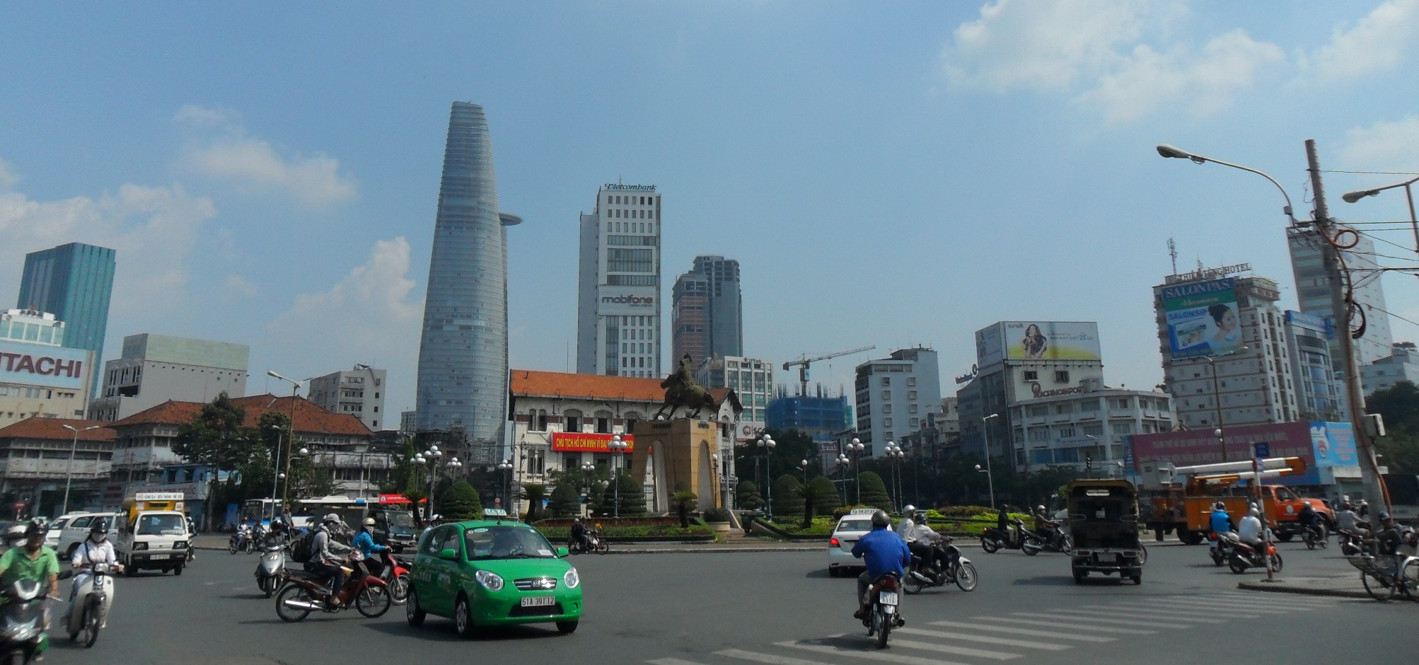 A part of Saigon, HCMC, Vietnam